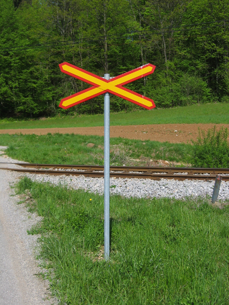 Andrew cross